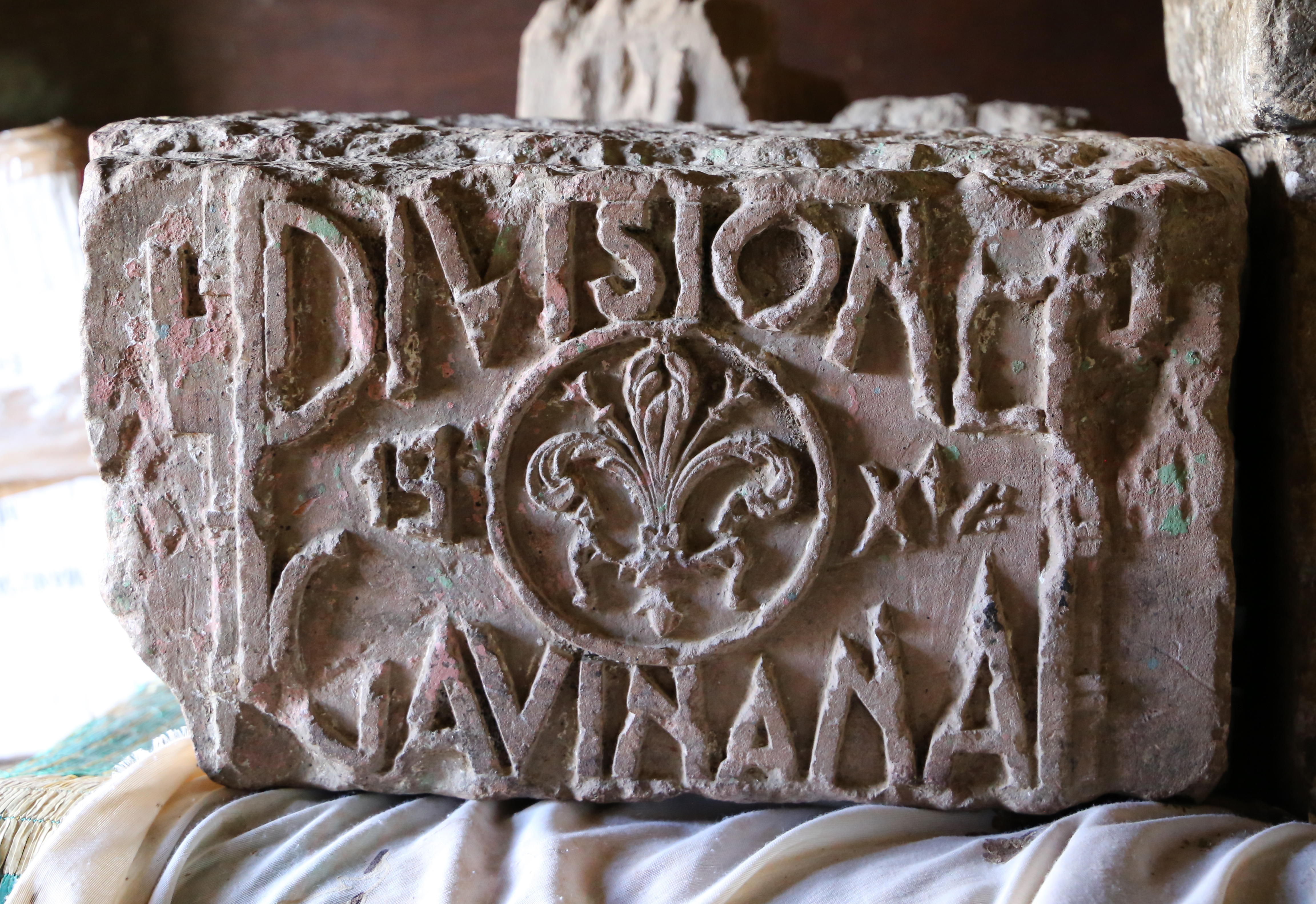 Yeha, Ethiopia